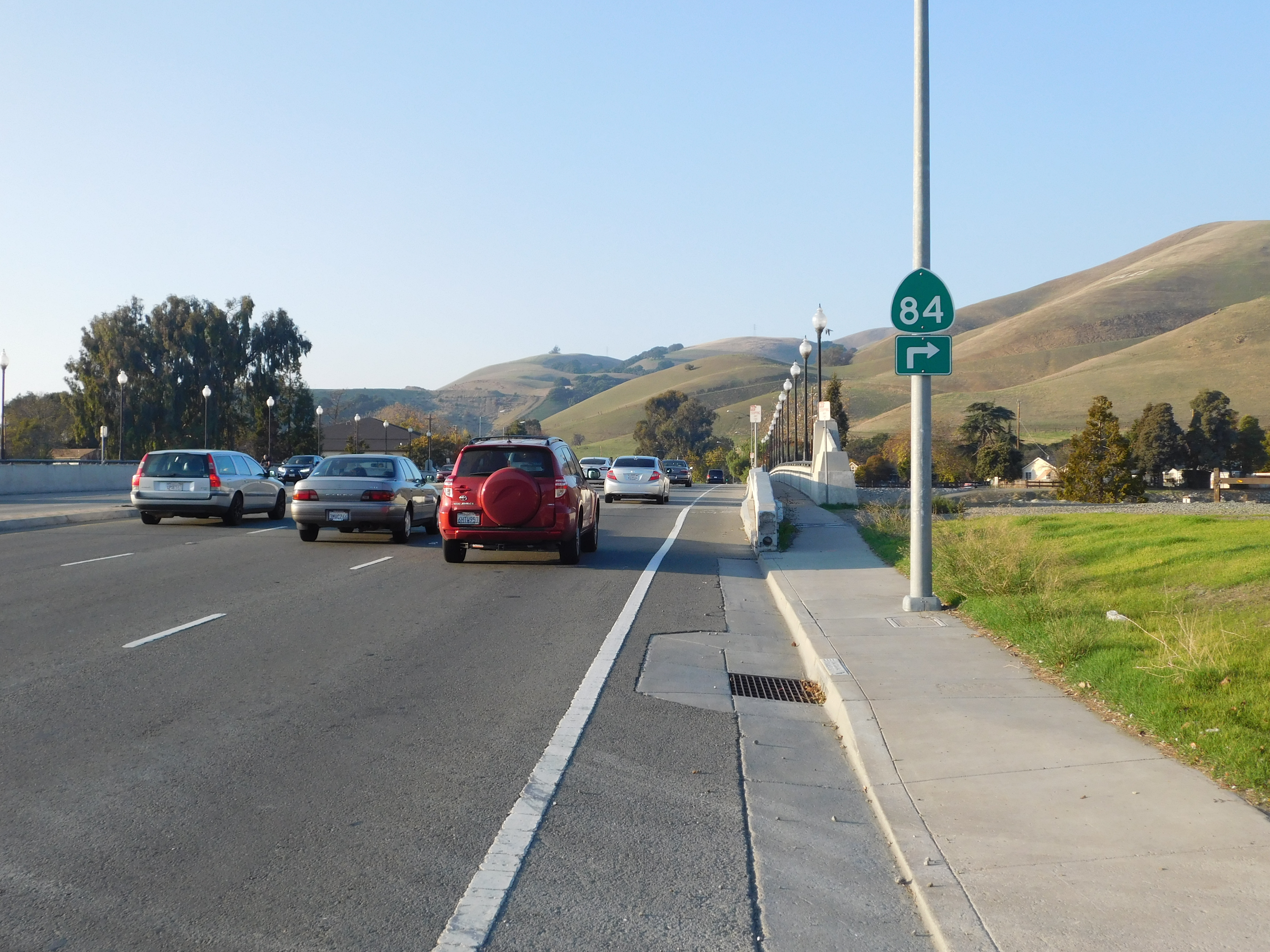 California State Route 238 approaching the Niles Canyon Road (California State Route 84) in Fremont, California.